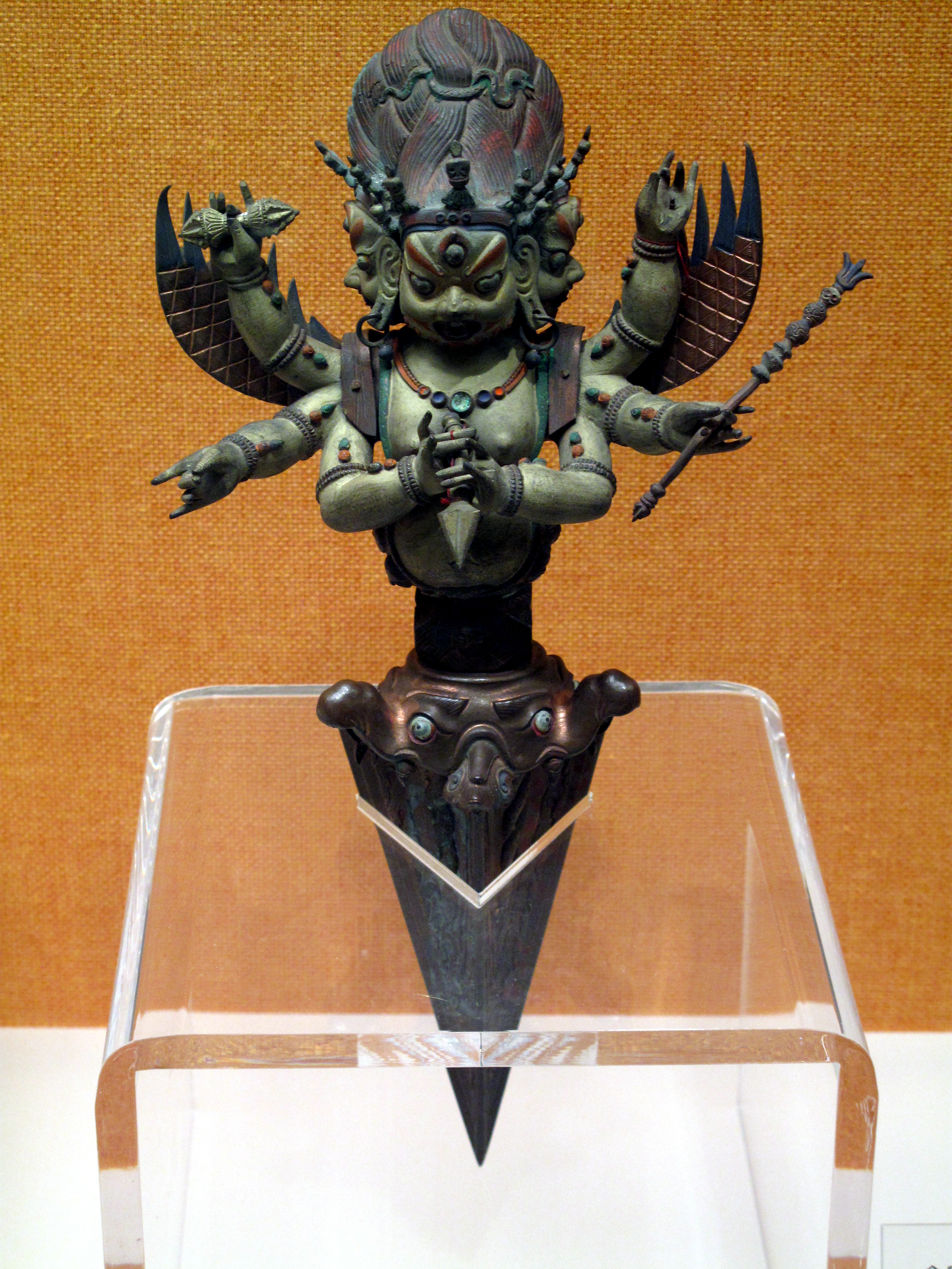 Vajrakila. Lama Temple, Beijing The Tibetan vajra dagger (dorje phurba) is an implement for ritually dispelling hinderances to enlightenment such as negative thoughts, passions, etc. In the example seen here, the dagger's pointed blade forms the lower body of Vajrakila, a god who is the personification of the dagger. The figure's paired wings, six arms, and three heads are standard iconography for this deity.